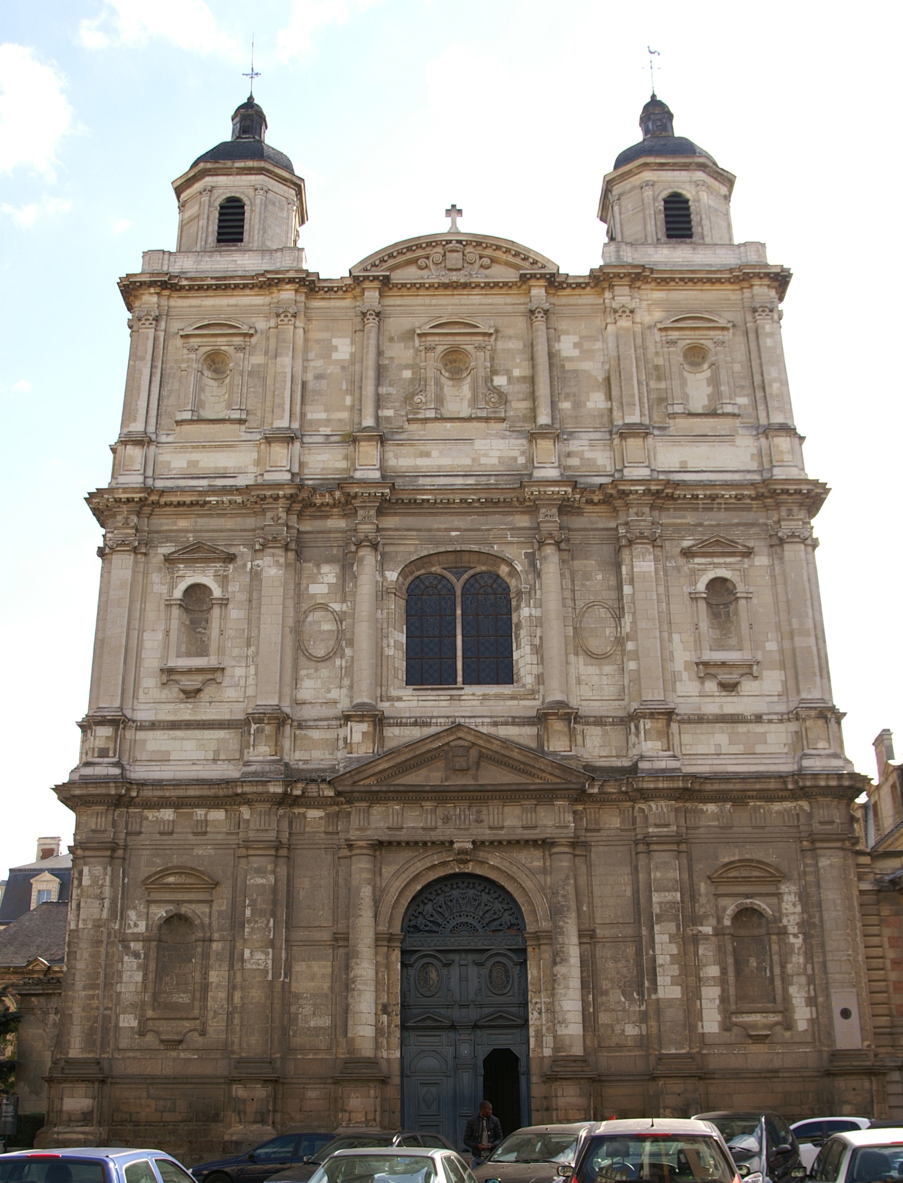 Façade of Toussaints church in Rennes.